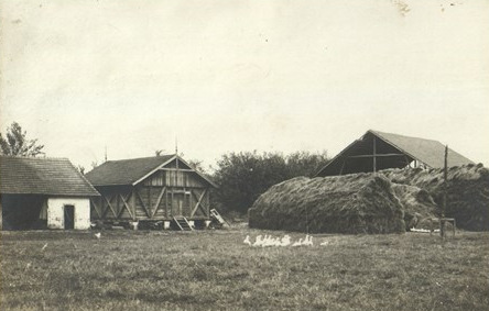 Bulgaria